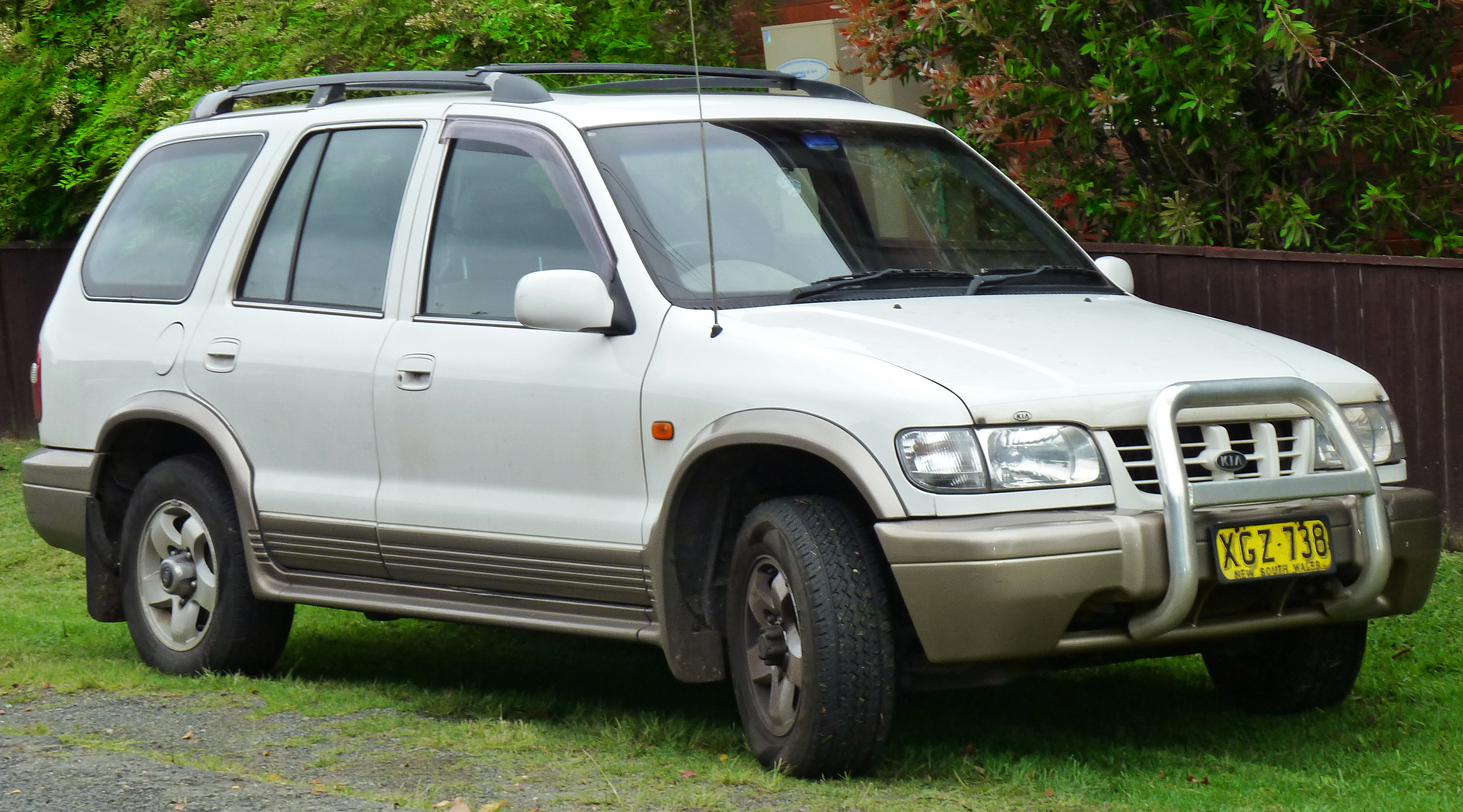 2001 Kia Sportage (NB-7 MY01) wagon. Photographed in Killara, New South Wales, Australia.